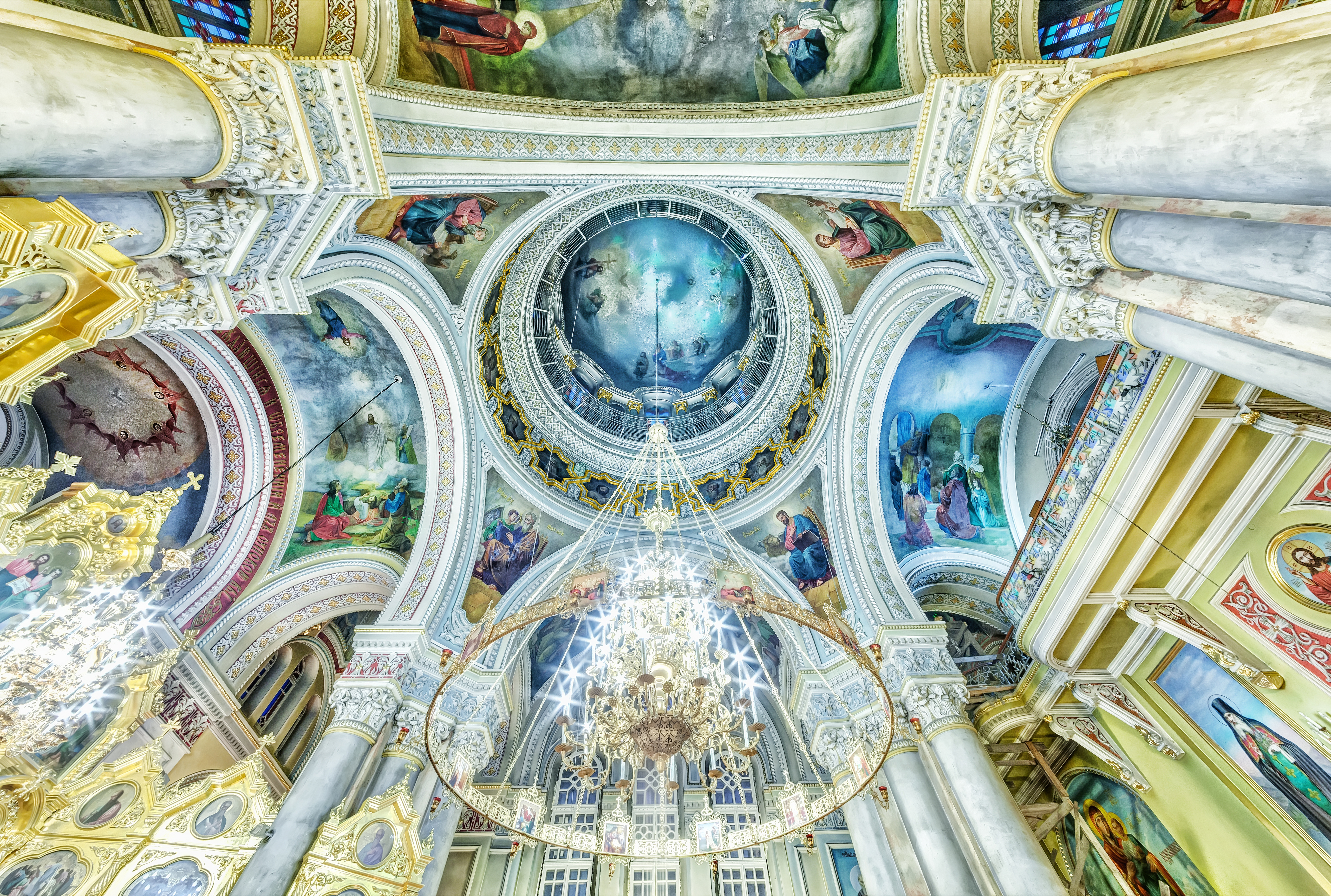 St. Elias Monastery (Odessa), the building of the St. Elias church of Athos yard (1896, monument of architecture and and urban development, of local significance)